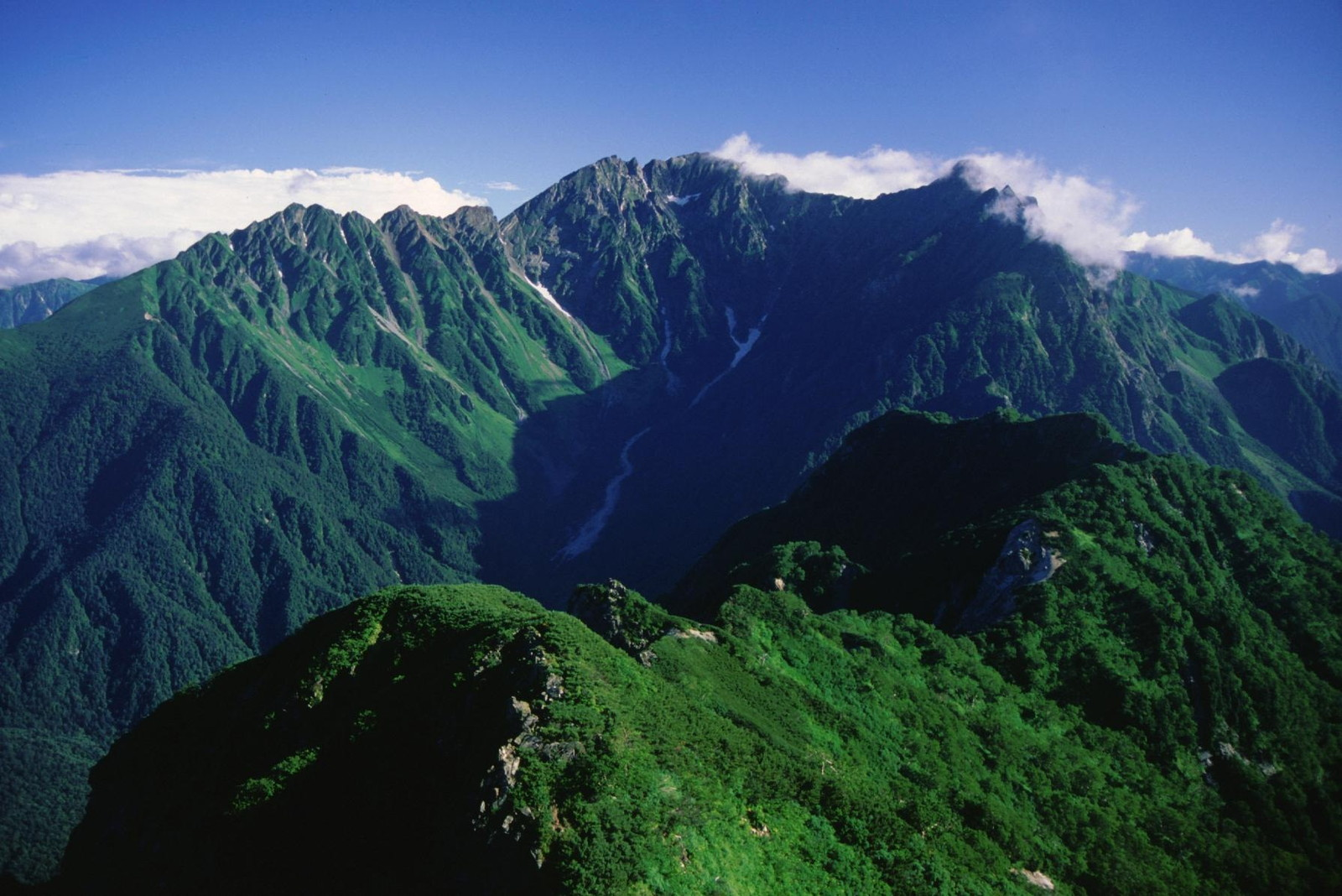 Hotaka Mountains seen from Mount Kasumizawa, in Hida Mountains, Japan.